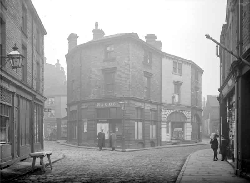 Holroyd's Buildings in Halifax, West Yorkshire, England, designed by William Swinden Barber as a commercial venture for himself. It was demolished in 1914 to make way for Artillery Square.